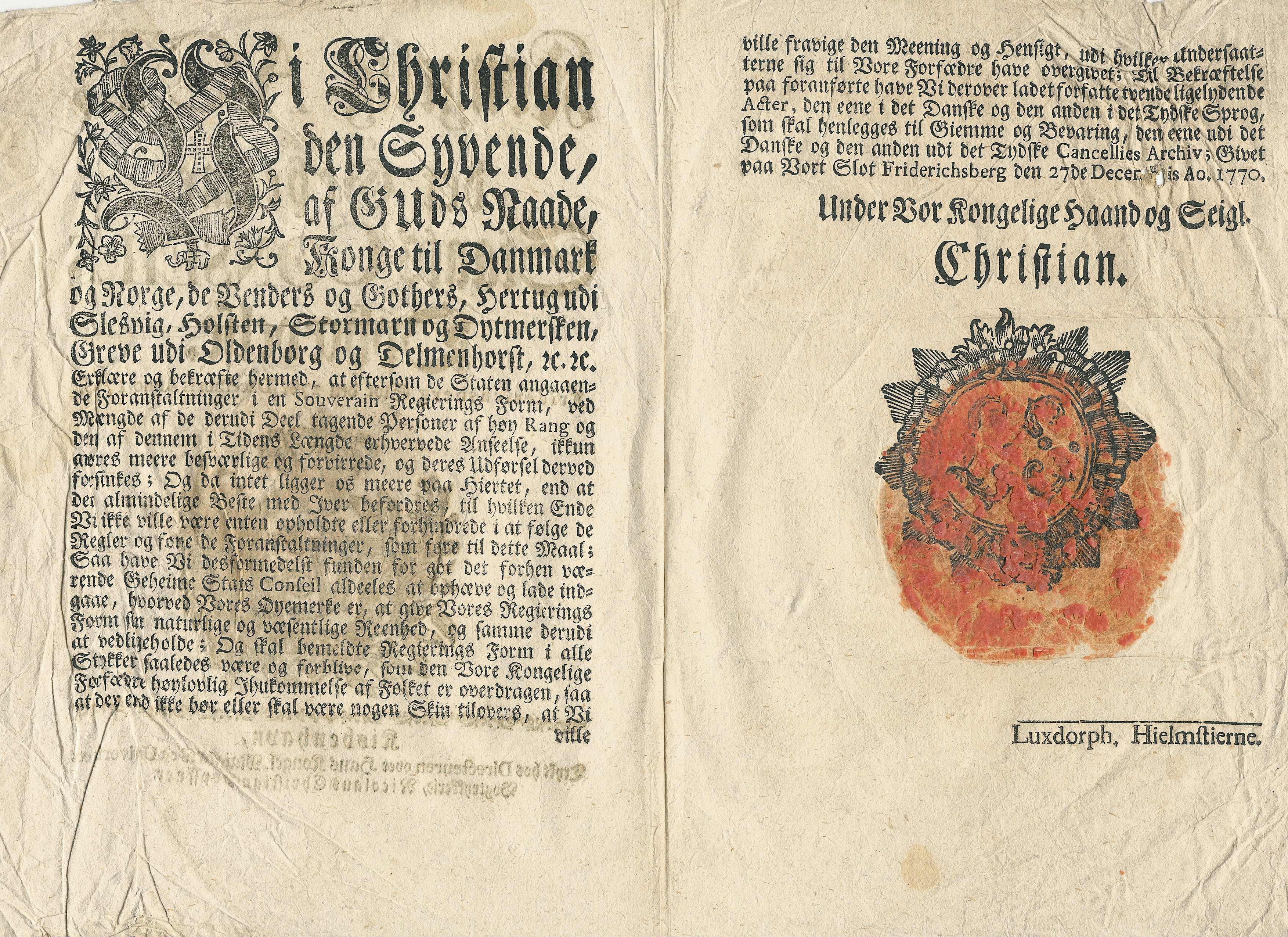 Pages 2 and 3 of the document from December 1770 proclaiming the dissolution of the Geheime Stats Conseil (Secret State Council) by Johann Friedrich Struensee, officially marking his ascent to power in the state of Denmark-Norway.